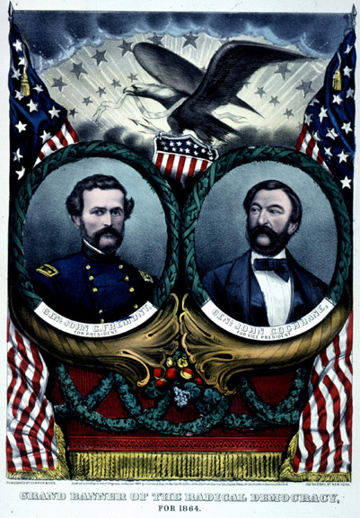 1864 Radical Republican Poster of Frémont and Cochrane